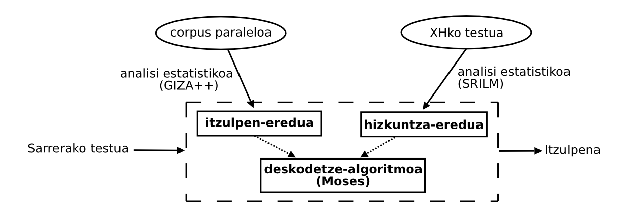 Architecture of a SMT system (text in Basque)